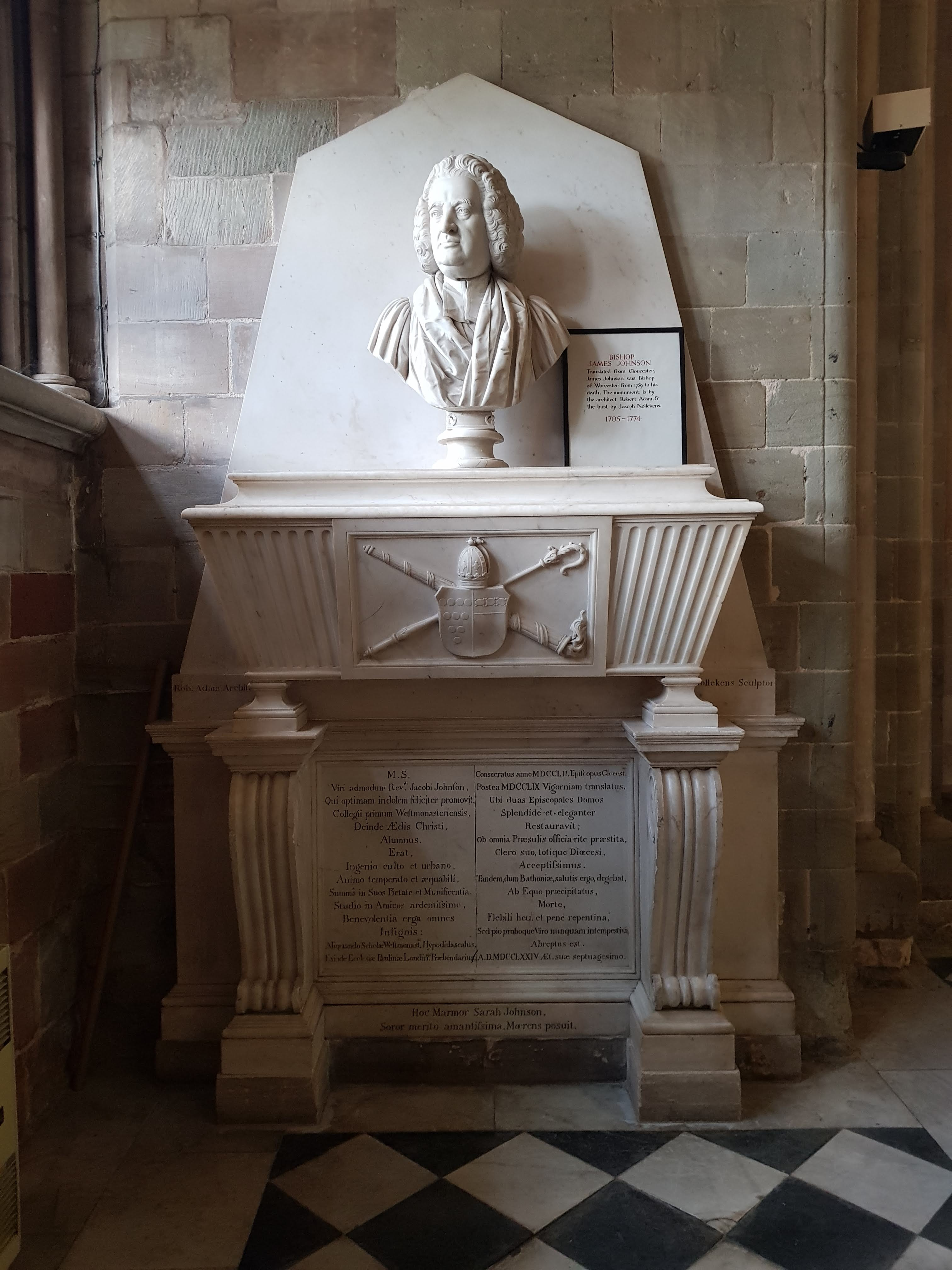 Worcester Cathedral, monument to James Johnson (1705 – 28 November 1774) successively Bishop of Gloucester (1752–1759) and Bishop of Worcester (1759–1774). Arms: See of Worcester impaling Johnson (Argent, a bend sable on a chief of the second three wool-packs of the first) (A GLOSSARY OF TERMS USED IN HERALDRY by JAMES PARKER FIRST PUBLISHED in 1894[1])